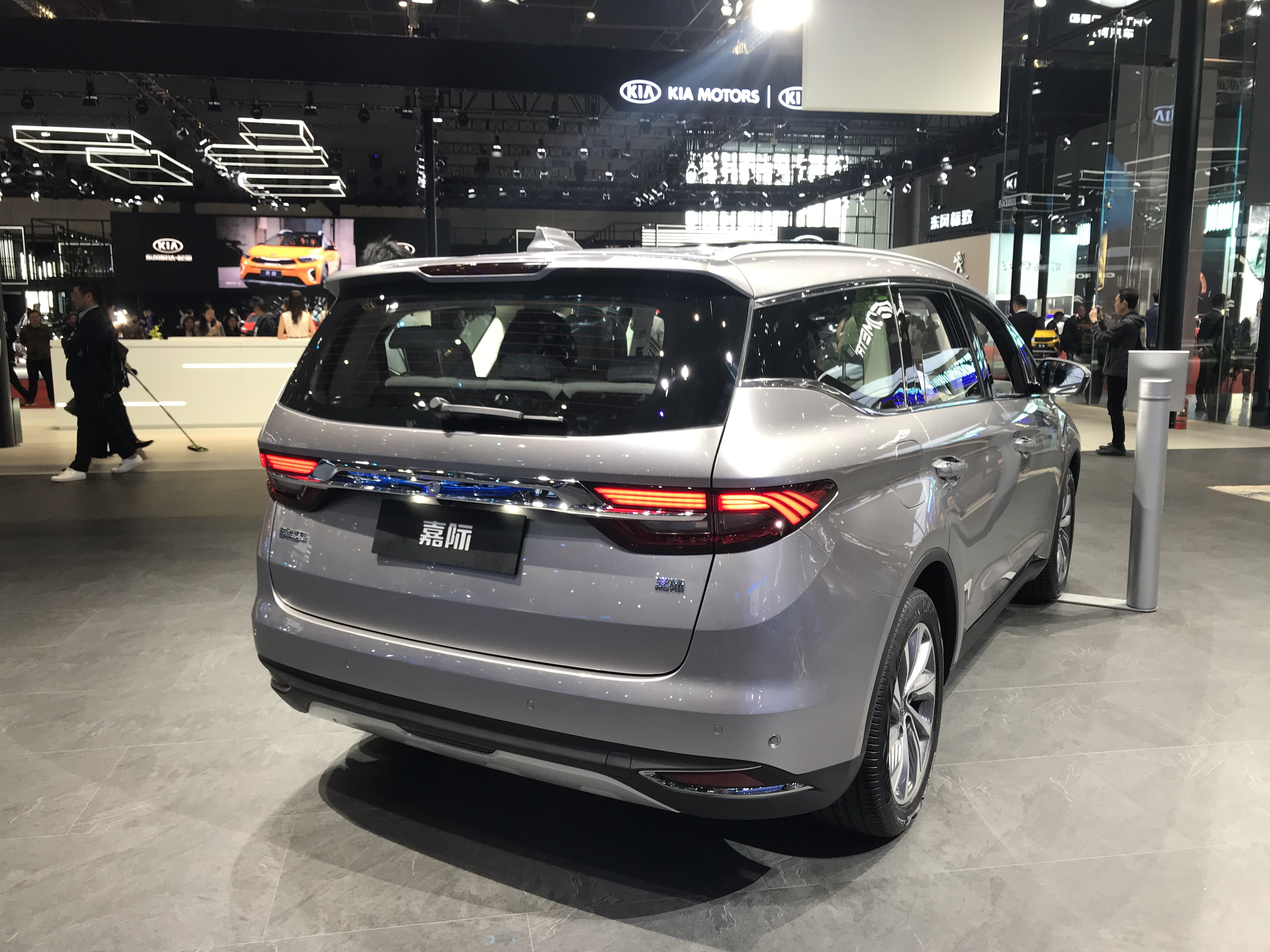 Geely Jiaji rear quarter view